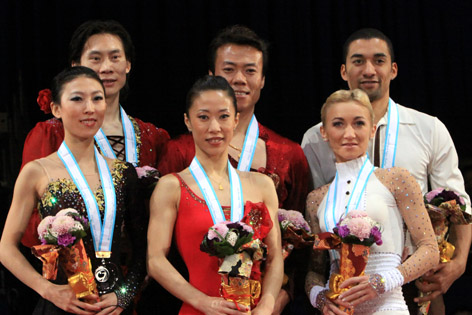 The pairs podium at the 2009-2010 Grand Prix of Figure Skating Final. From left: Pang Qing / Tong Jian (2nd), Shen Xue / Zhao Hongbo (1st), Aliona Savchenko / Robin Szolkowy (3rd).